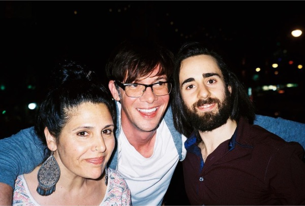 Jason Agius with Newton's Law co-stars Toby Schmitz and Georgina Naidu.